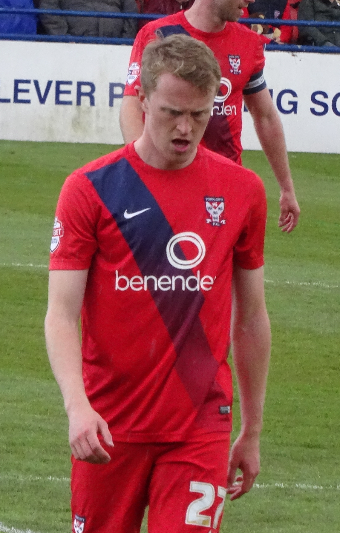 Luke Hendrie playing for York City against Bristol Rovers at Bootham Crescent, York on 30 April 2016